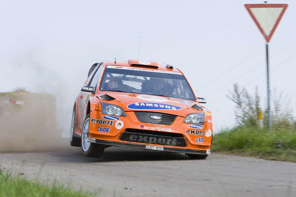 Henning Solberg driving his Ford Focus RS WRC 07 at the 2008 Rallye Deutschland.